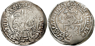 GERMANY, Goslar. Circa late 15th Century. AR Bauerngroschen (28mm, 2.84 gm). Helmeted arms / Sts. Simon and Judas, nimbate, standing facing. Saurma 3960/2144. VF.